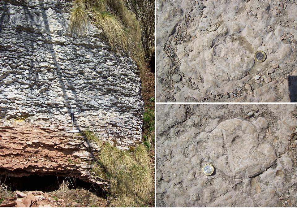 Left: Ammonitico Rosso outcrop (Southern Alps, Veneto, Val Brenta); right: two weathered ammonites (Aspidoceras sp.) on stratal surfaces into a quarry nerby the outcrop.